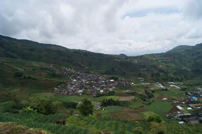 Kejajar Subdistrict